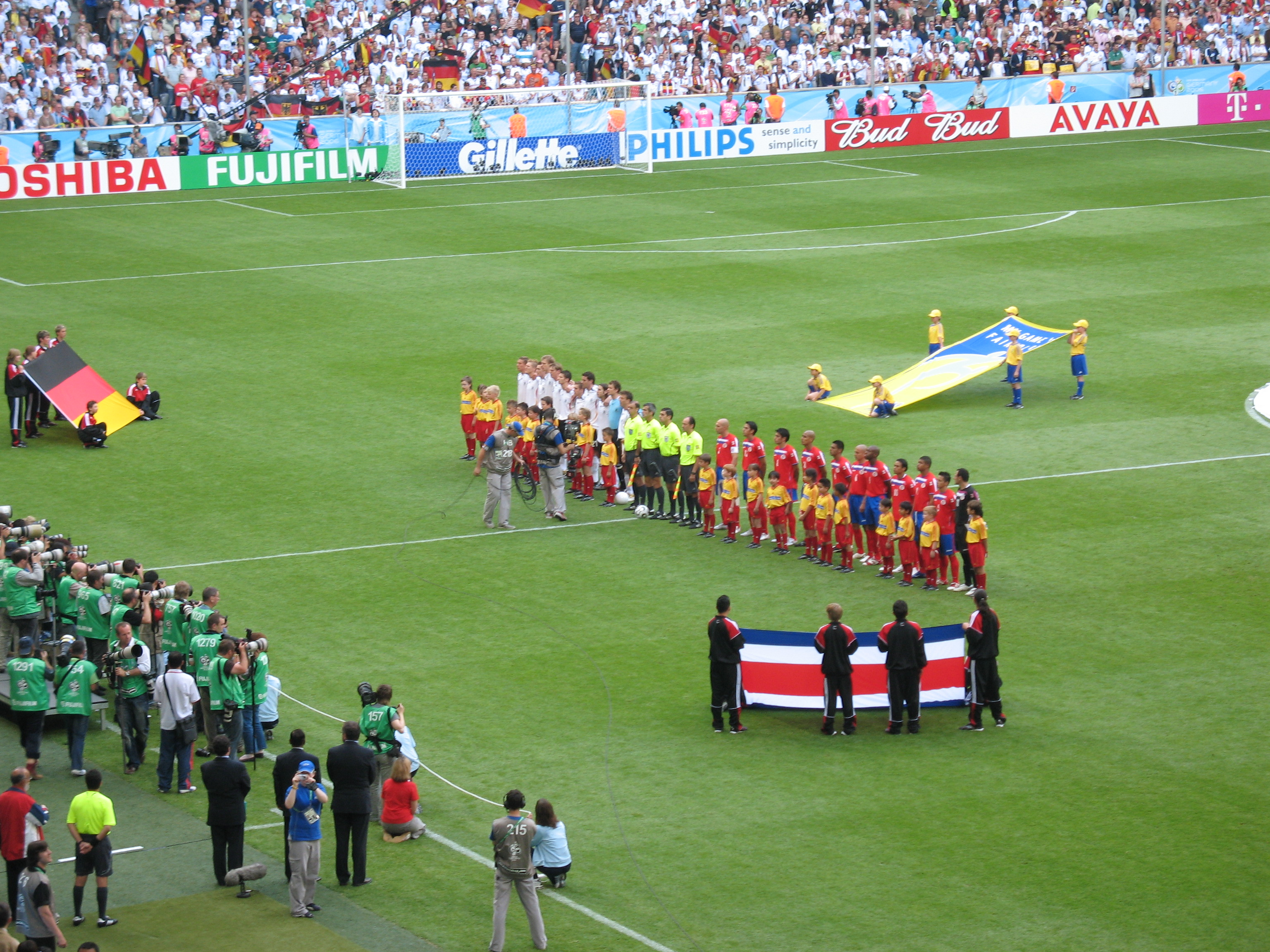 Teams line up for national anthems at Germany vs. Costa Rica match on 09/06/2006 at World Cup opening matchSoccer Worldcup 2006 - 09/06/2006